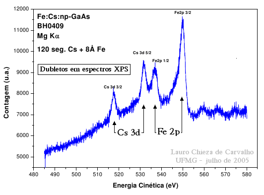 Double structures in XPS spectrum.